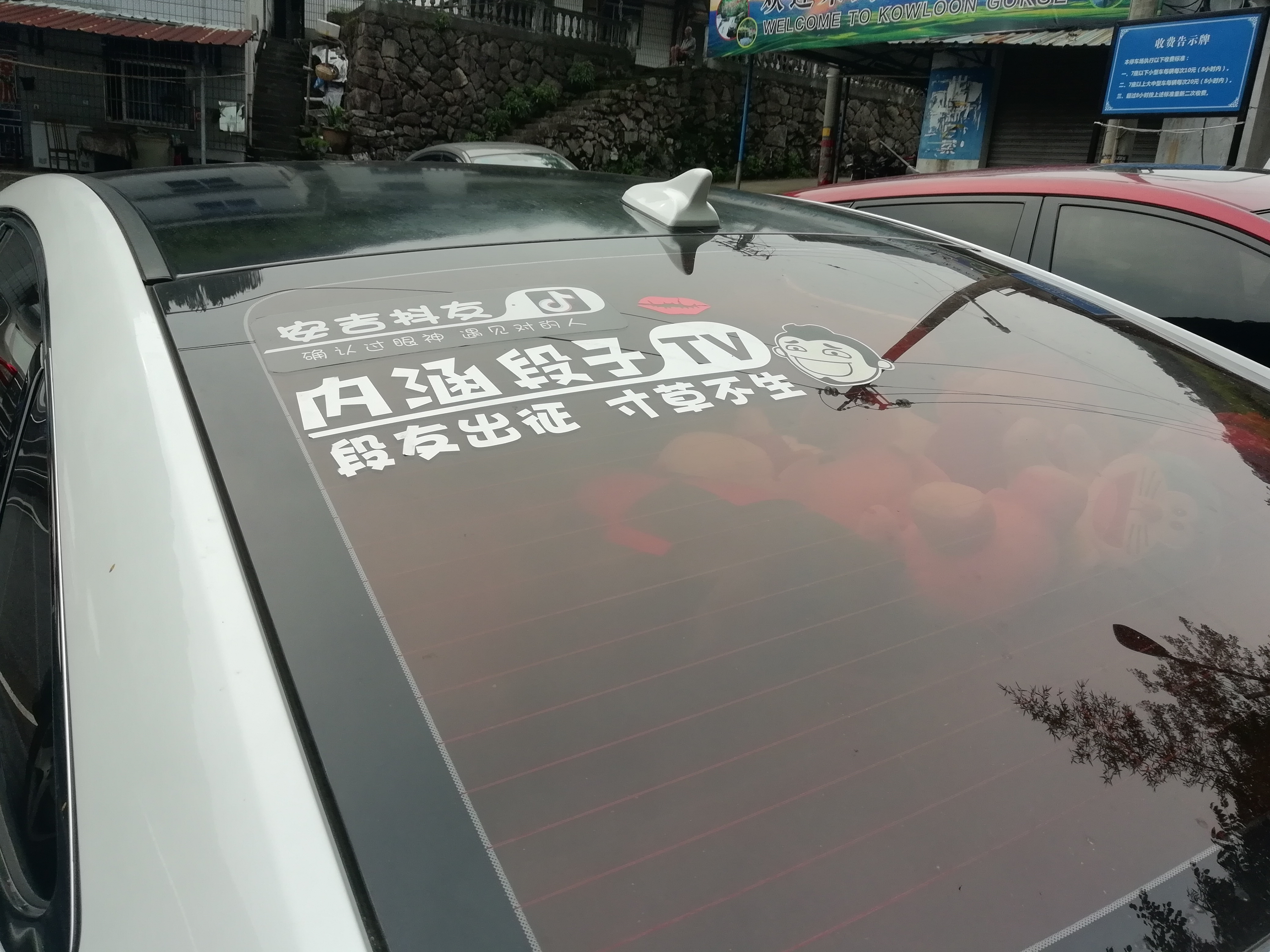 "Neihanduanzi" and "Douyou" car window stickers, taken in Anji County, Zhejiang, China.